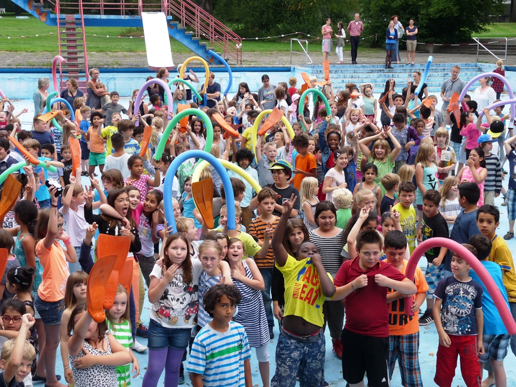 Fössebad Kids' protest 2014 against outdoor pool shutdown